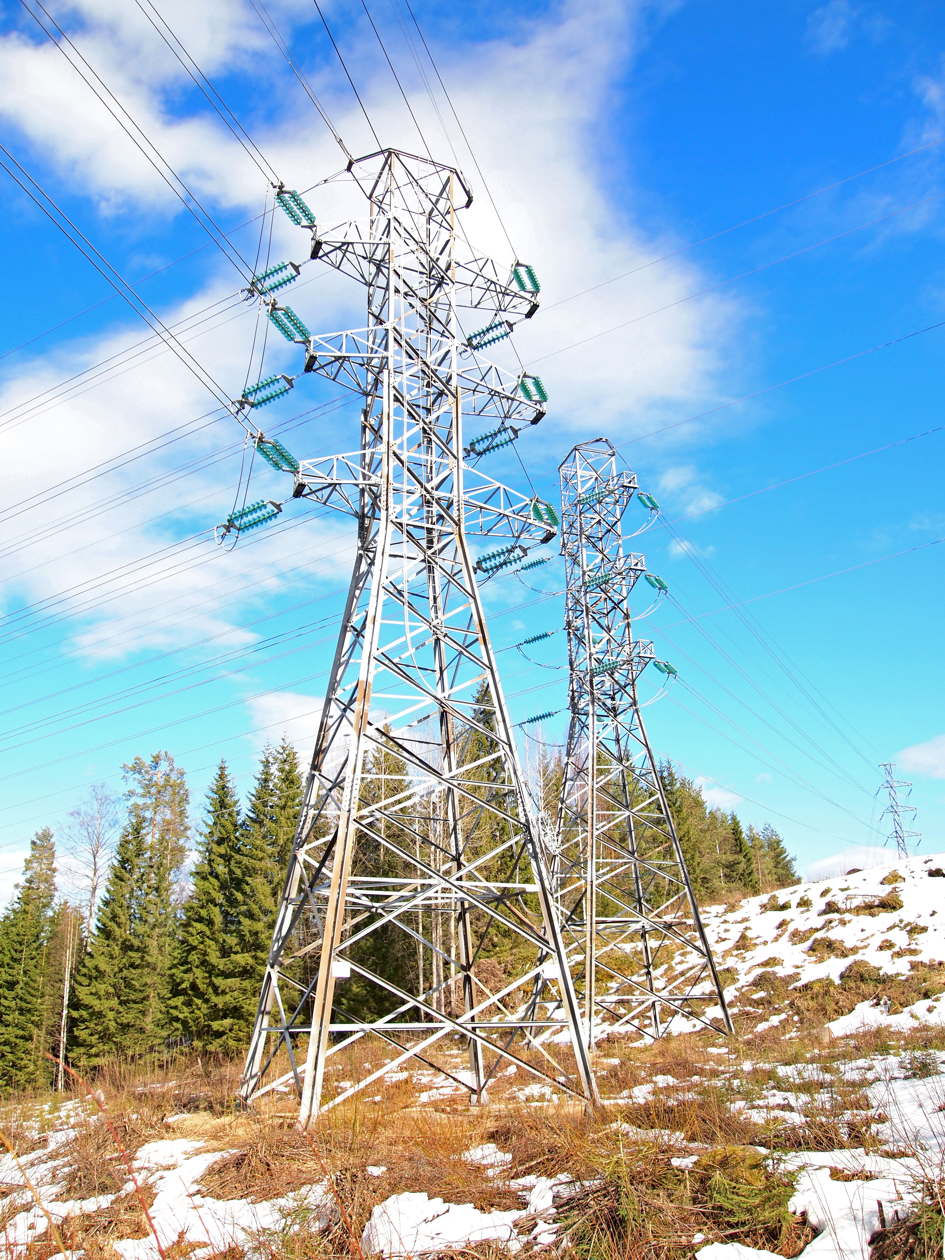 Power lines near the street Ronsuntaipaleentie in Keltinmäki district, Jyväskylä. This photograph was taken with an Olympus E-PL1